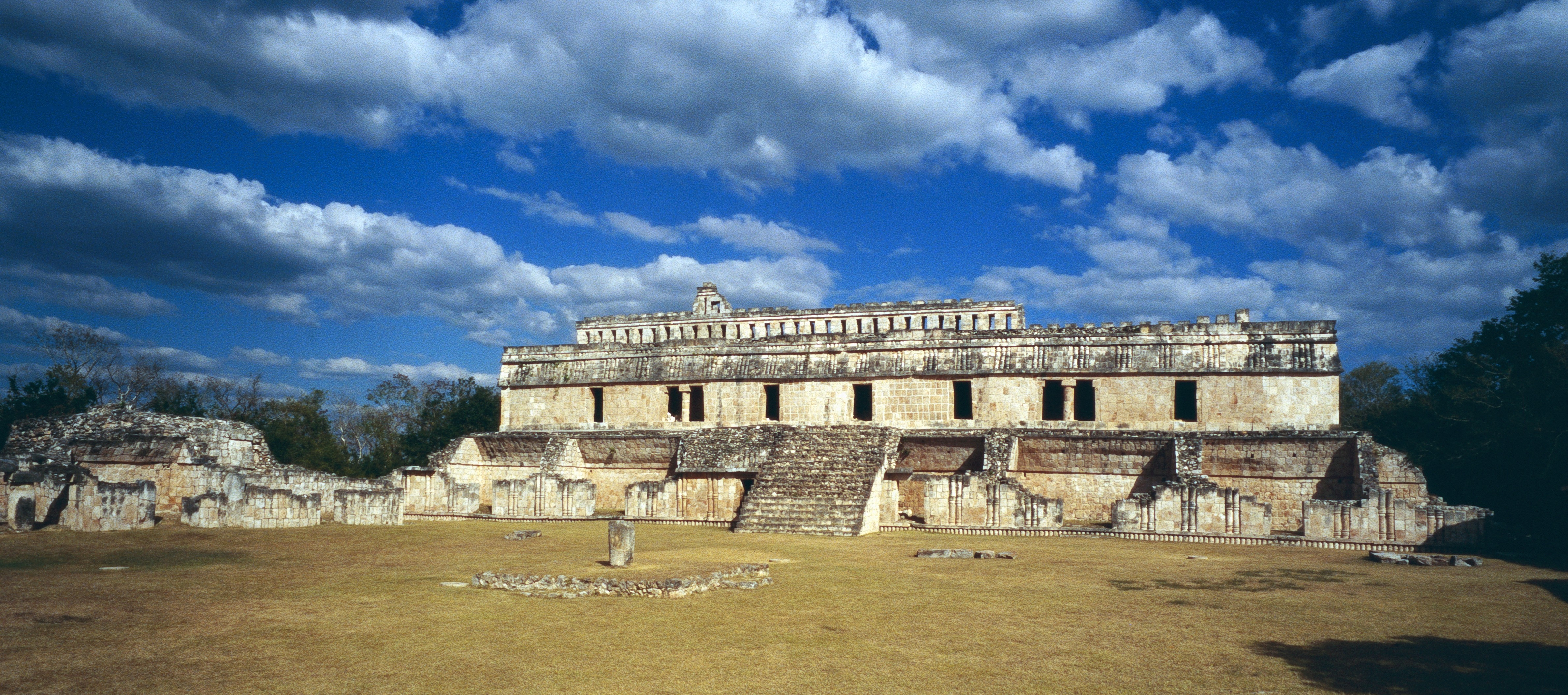 Kabah, Yucatan, Mexico: building 2C2, west facade